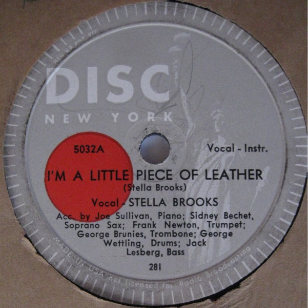 Stella Brooks: I'm a little Piece of Leather, with Joe Sullivan, Sidney Bechet, Frank Newton, George Brunies, George Wettling